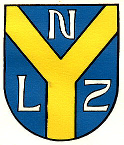 Coat of arms of Category:Niederhelfenschwil, canton of St. Gallen, Switzerland